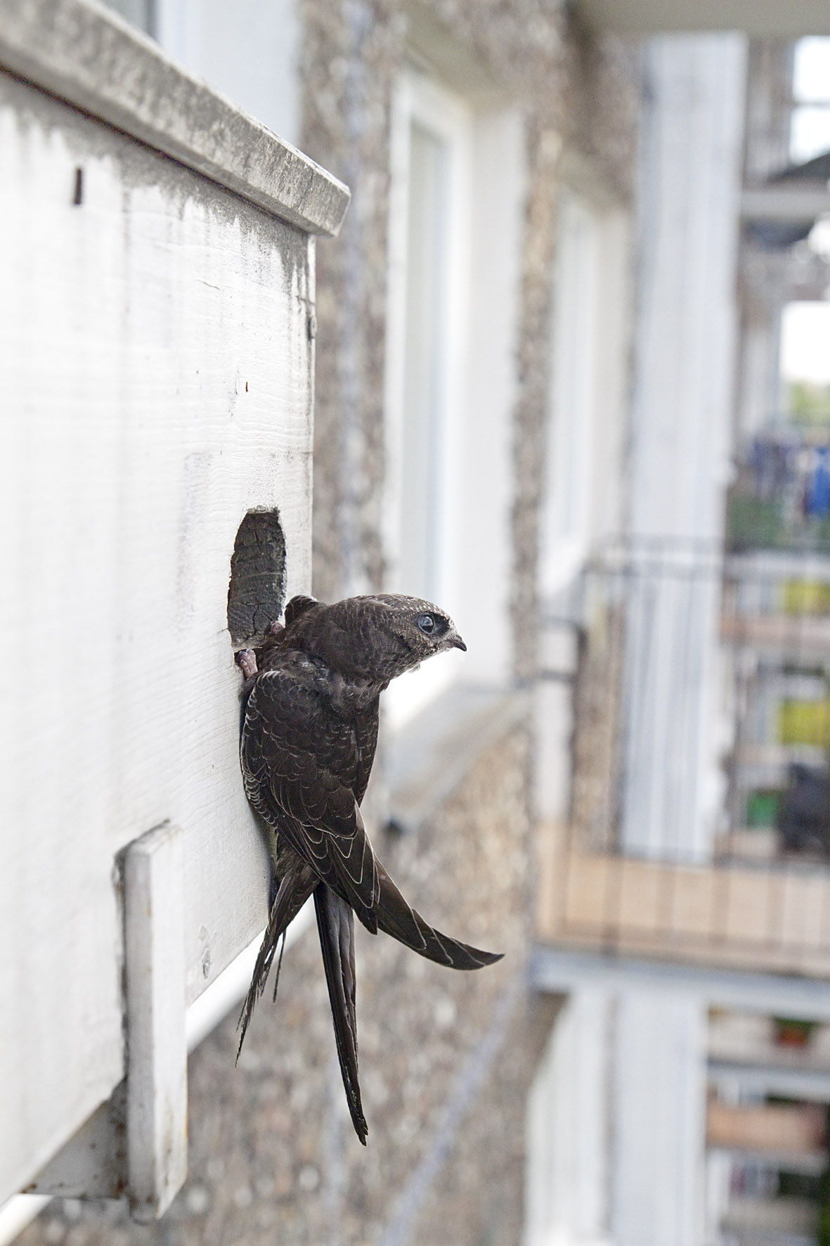 Swift at the nesting box.